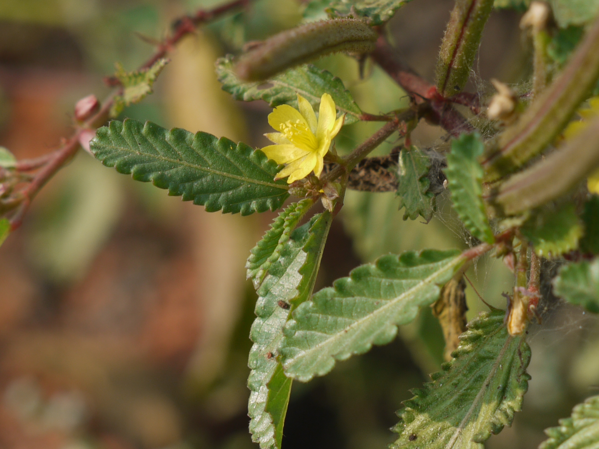 Tiliaceae (phalsa family) » Corchorus trilocularis KOR-koh-rus -- derivation is obscure try-lok-yoo-LAIR-is -- having three compartments, referring to the three-celled fruit commonly known as: African jute, bush okra, Jew's mallow, three locule corchorus, wild jute • Hindi: कड़वा पात kadvapat • Kannada: ಎಣ್ಣೆಪುಂಡಿ ಗಿಡ ennepundi gida, ಕಟುಚುಂಚುಳಿ ಗಿಡ katuchunchuli gida • Konkani: कोडुचोंची koduchonchi • Marathi: कडुचुंचू kaduchunchu • Oriya: jangali jiraa • Sanskrit: दीर्घचञ्चु dirghachanchu, राज जीर raj-jira • Telugu: bankitutturu Native of: Africa, Arabian Peninsula, w Asia, Indian Subcontinent; naturalized elsewhere References: Flowers of India • NPGS / GRIN • ENVIS - FRLHT